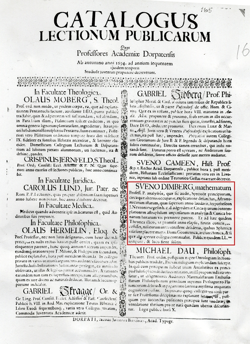 Catalogue of the lectures in University of Tartu (=Dorpat) in the autumn of 1694